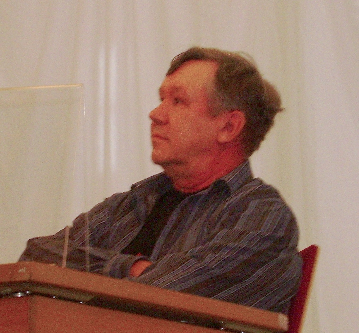 Finnish cartoonist Tarmo Koivisto at the Turku International Book Fair.